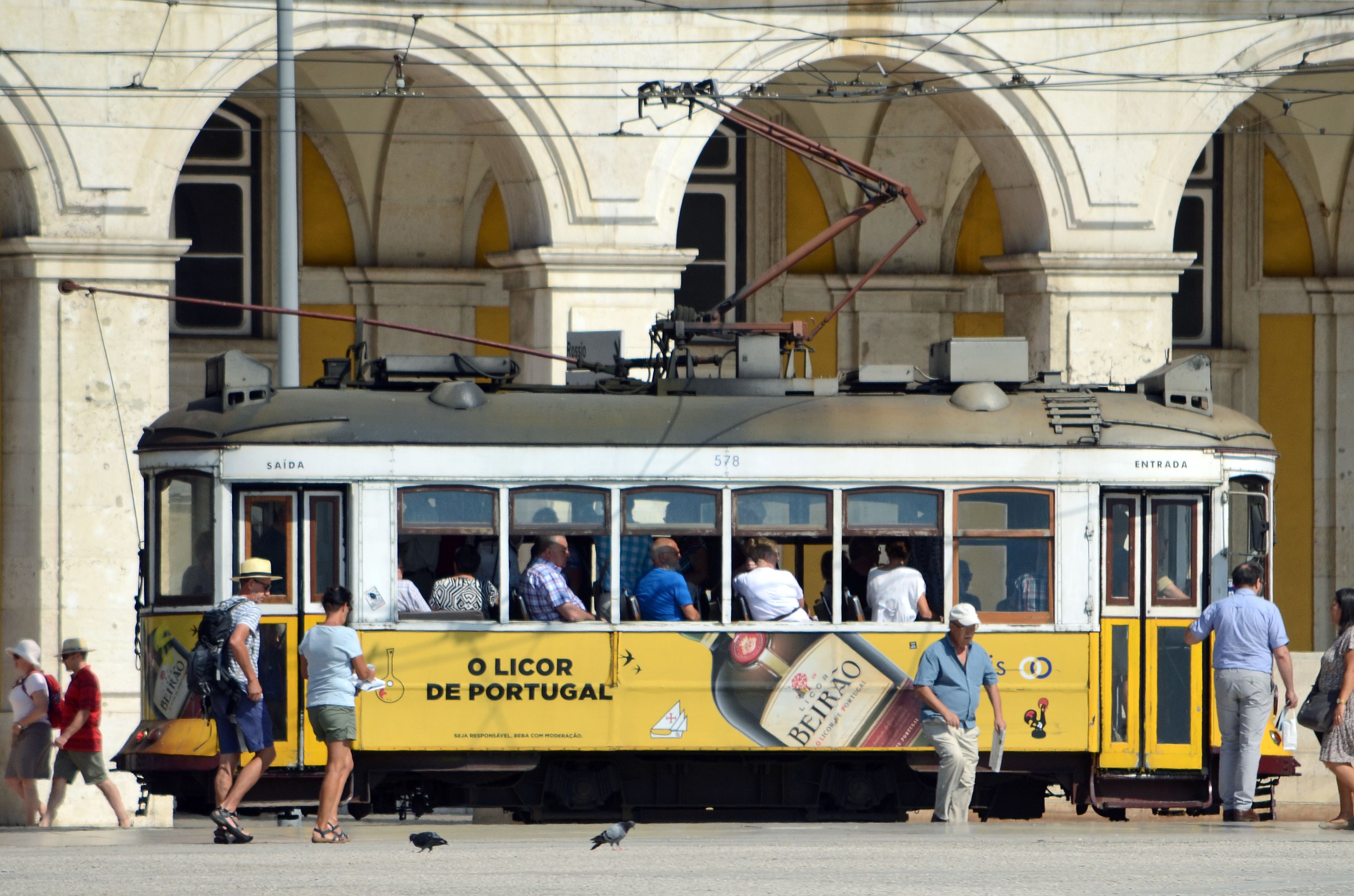 Lisbon